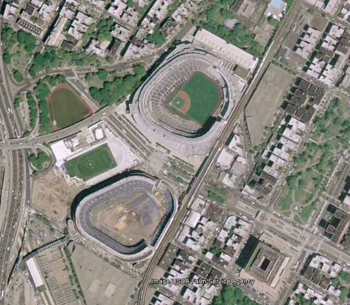 The old Yankee Stadium at the lower left has been almost torn down, the new Yankee Stadium at the upper right is built.